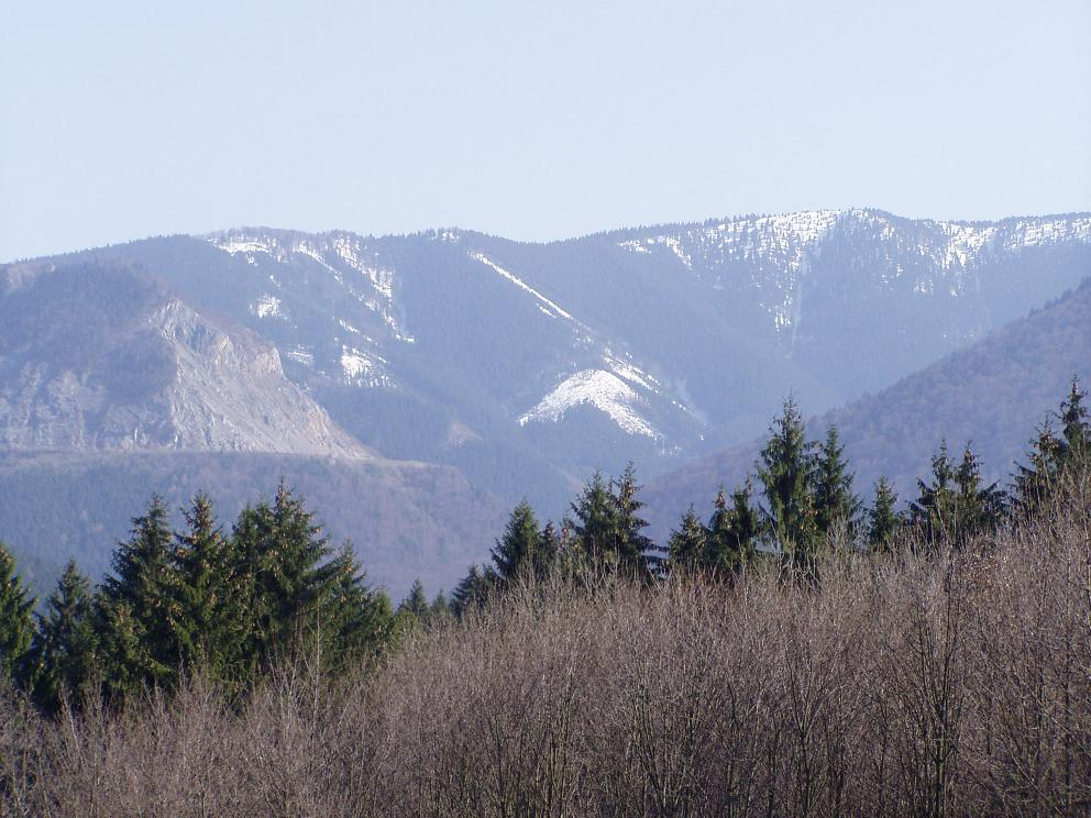 Pohľad od Rosiny